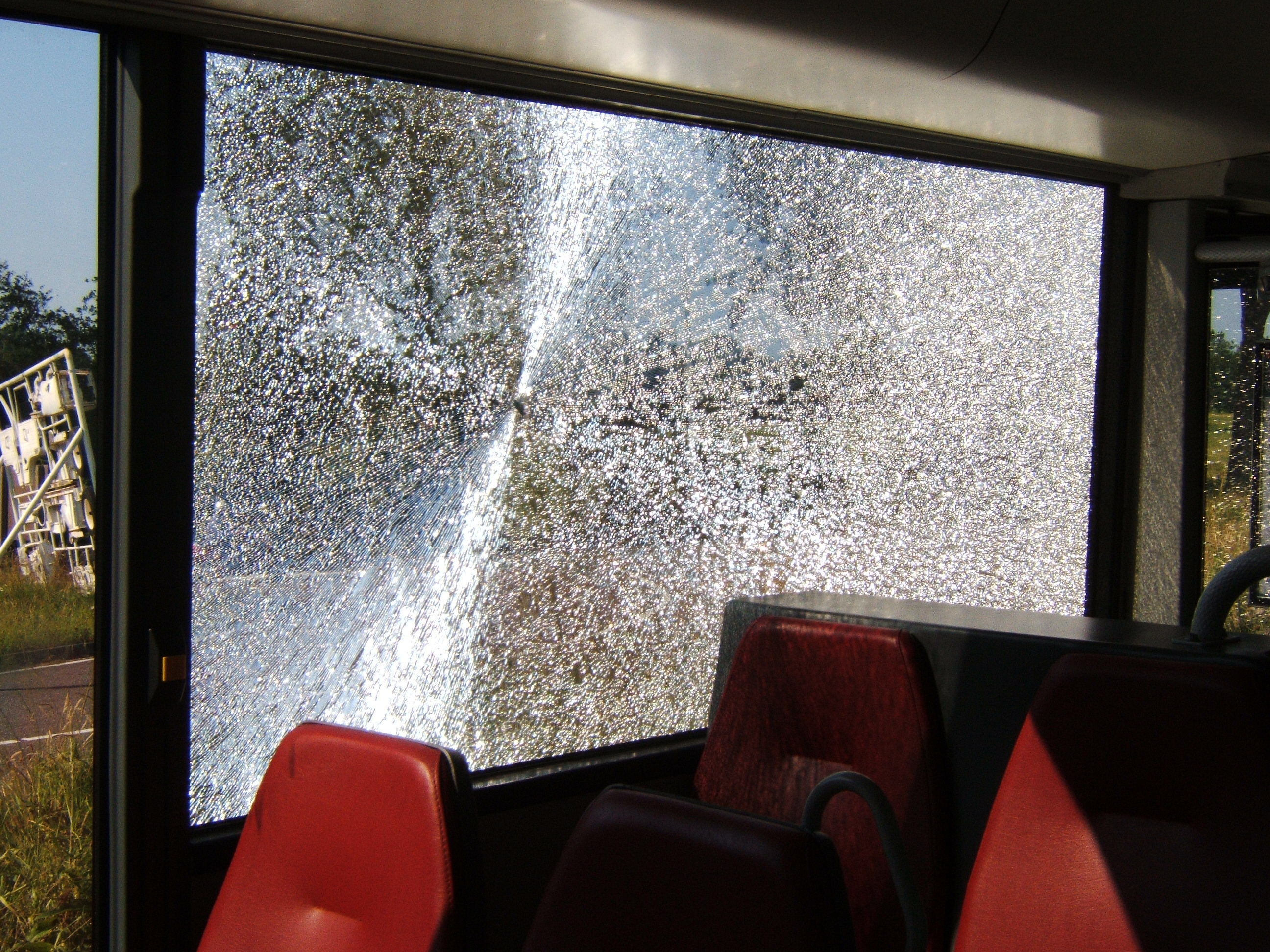 Damaged window on Amsterdam busline 195 (Lelylaan Schiphol) due to a stone missile. Vandals not found.